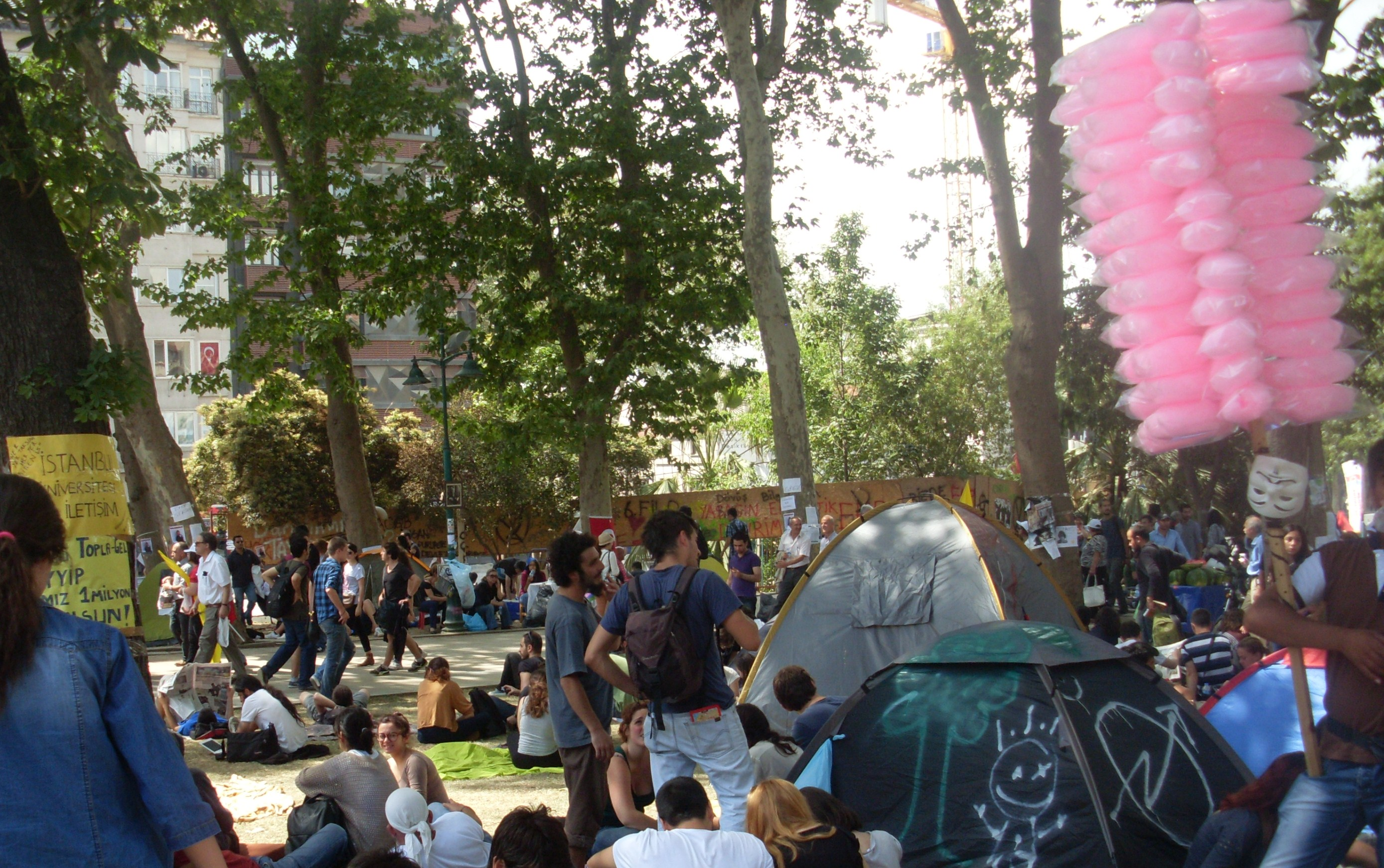 2013 Taksim Gezi Park protests, a view from Taksim Gezi Park on 5th June 2013